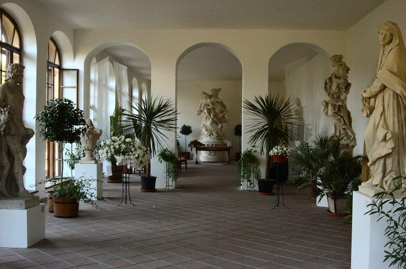 Milotice Castle, Czech republic